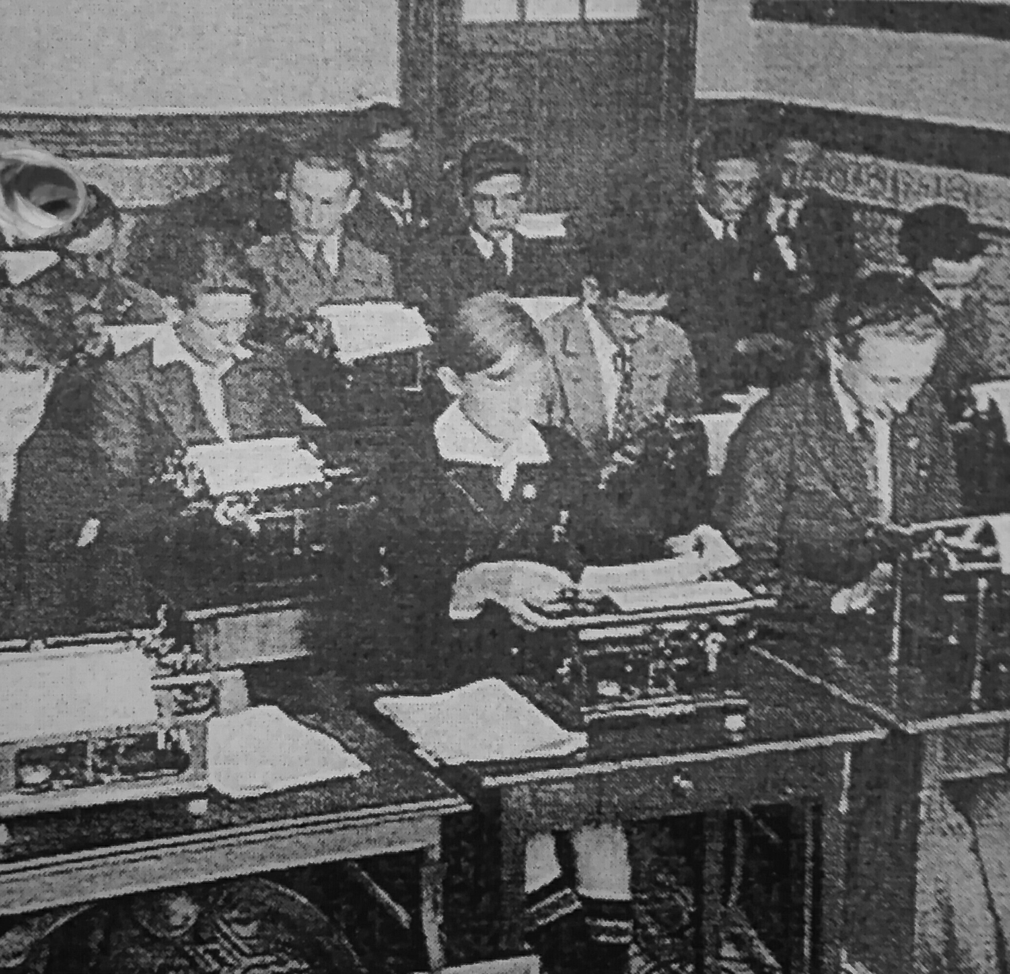 Old picture from children of the Sint-Gabriëlcollege in Boechout (Belgium). The author is unknown and the picture is older than 70 years.